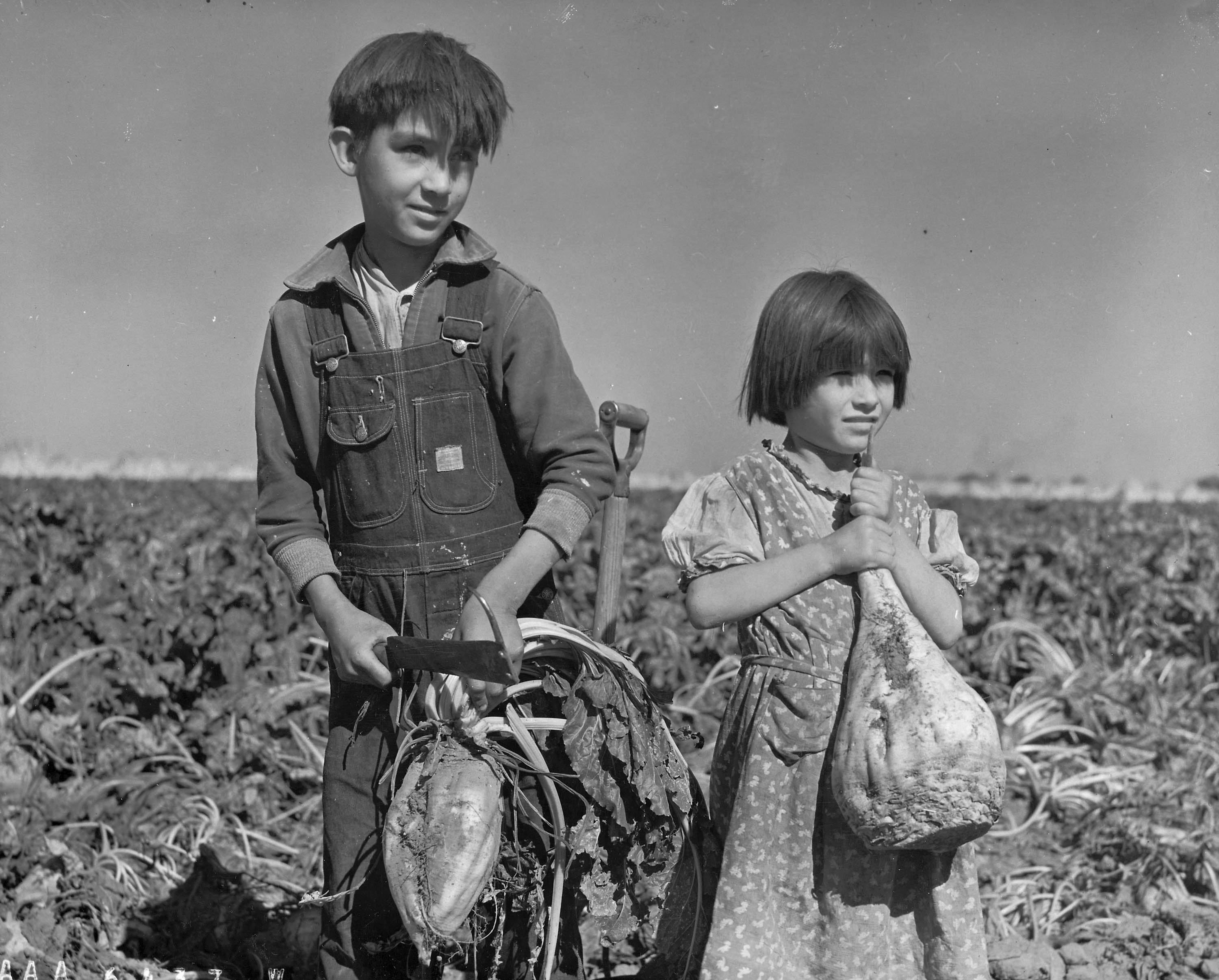 "Children and Sugar Beets" Hall County, Nebraska, October 17, 1940. Vintage print. Records of the Office of the Secretary of Agriculture. (16-G-159-AAA-6437W)